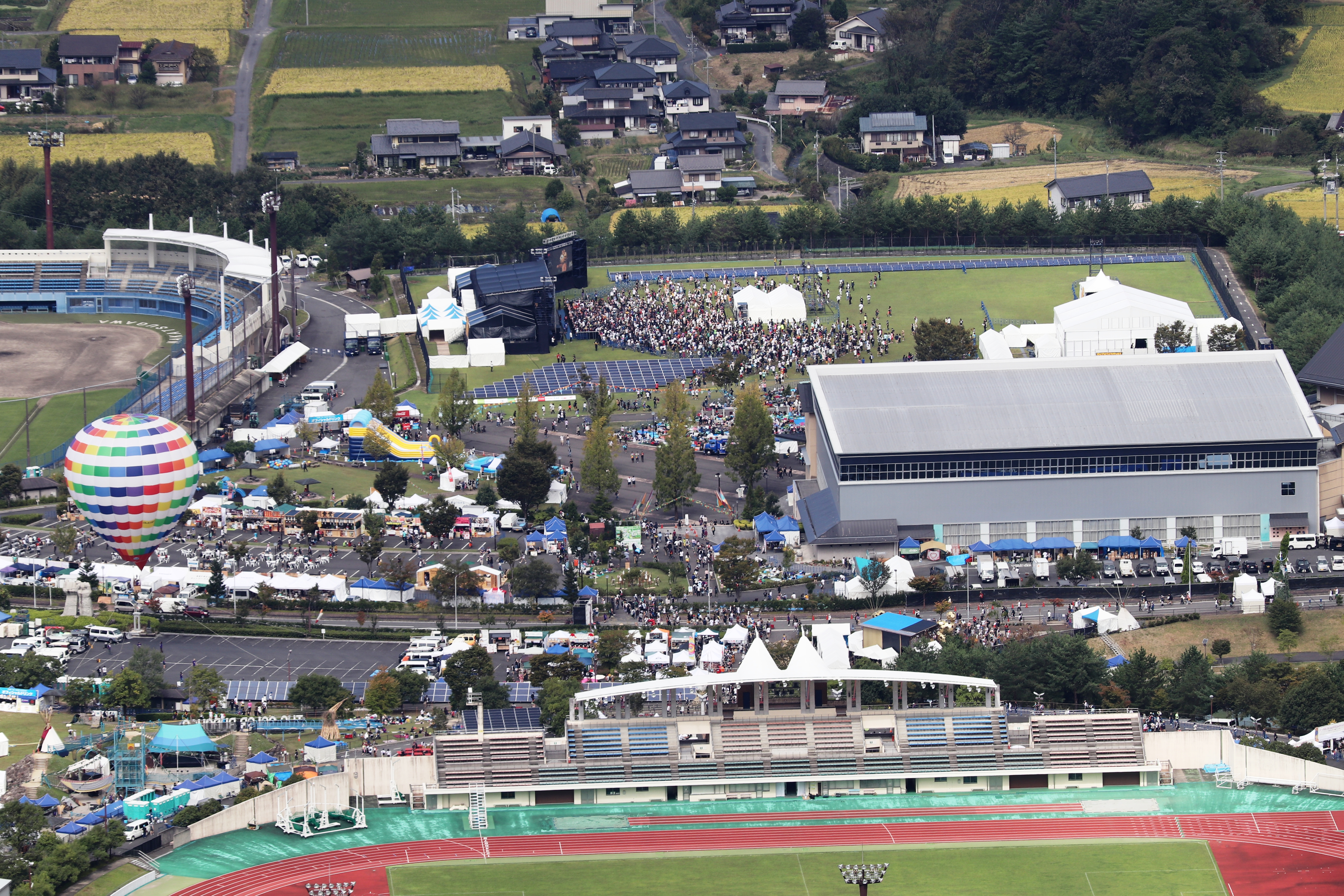 Nakatsugawa THE SOLAR BUDOKAN in Nakatugawa Park seen from Mount Hoko in Nakatsugawa, Gifu Prefecture, Japan.